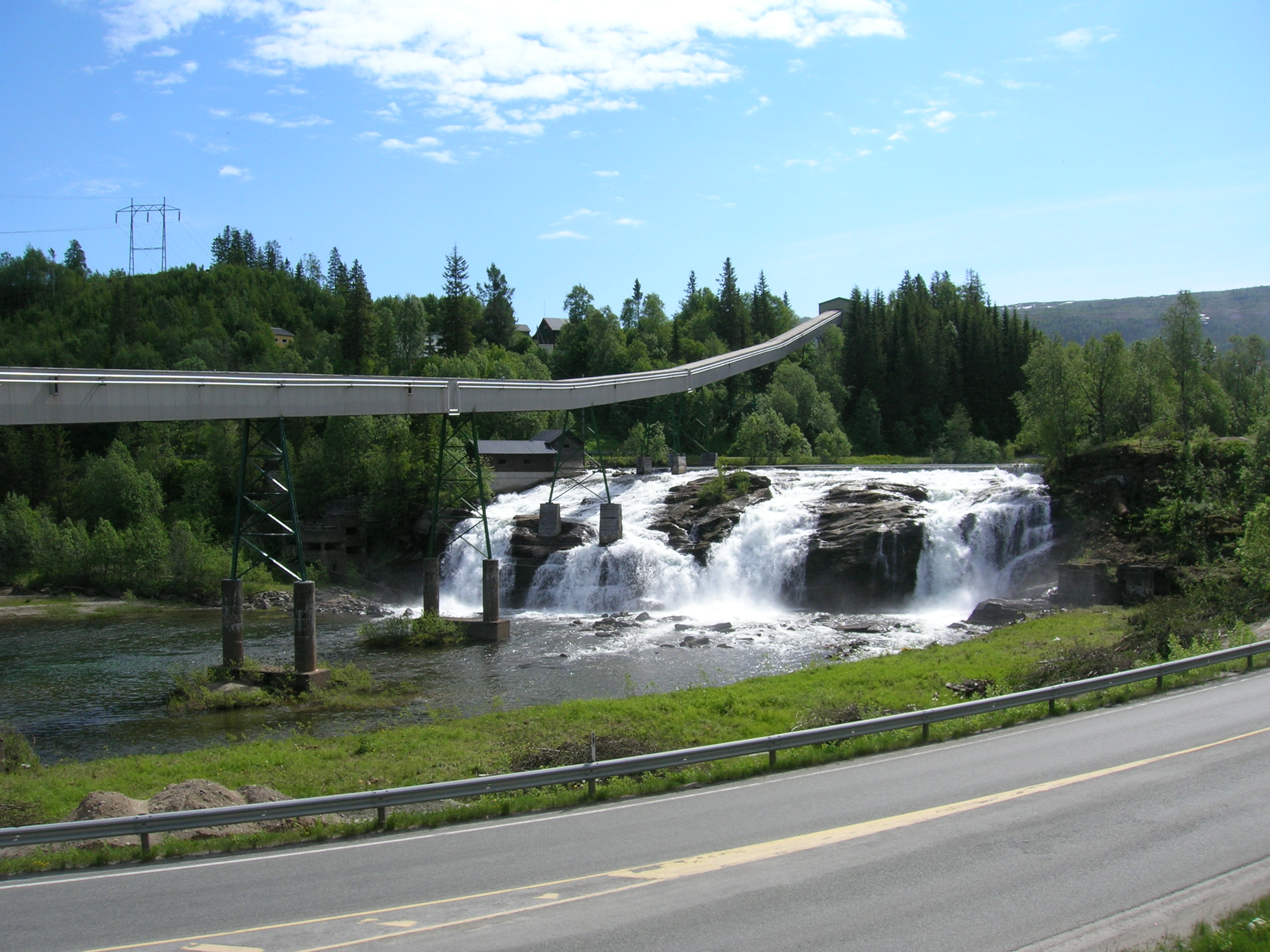 Revelfossen in the river Revelelva in Mo i Rana, municipality, Nordland, Norway. Photo June 10, 2007 with a Nikon Coolpix 5600 5,1 Megapixel camera.